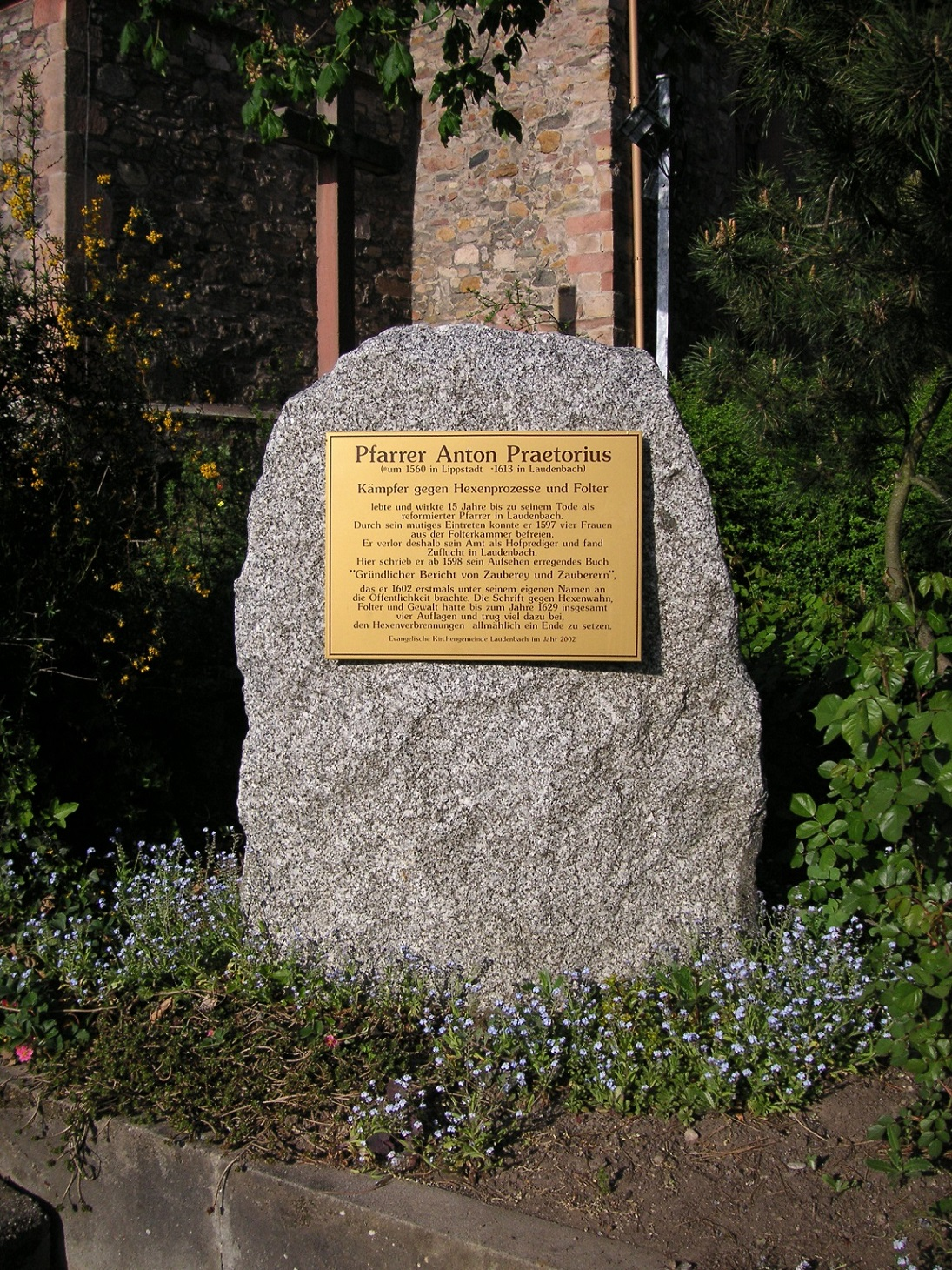 Laudenbach: Plaque in front of the protestant church for Anton Praetorius. He was pastor here 1598-1613 and wrote a sensational book against the persecution of witches.